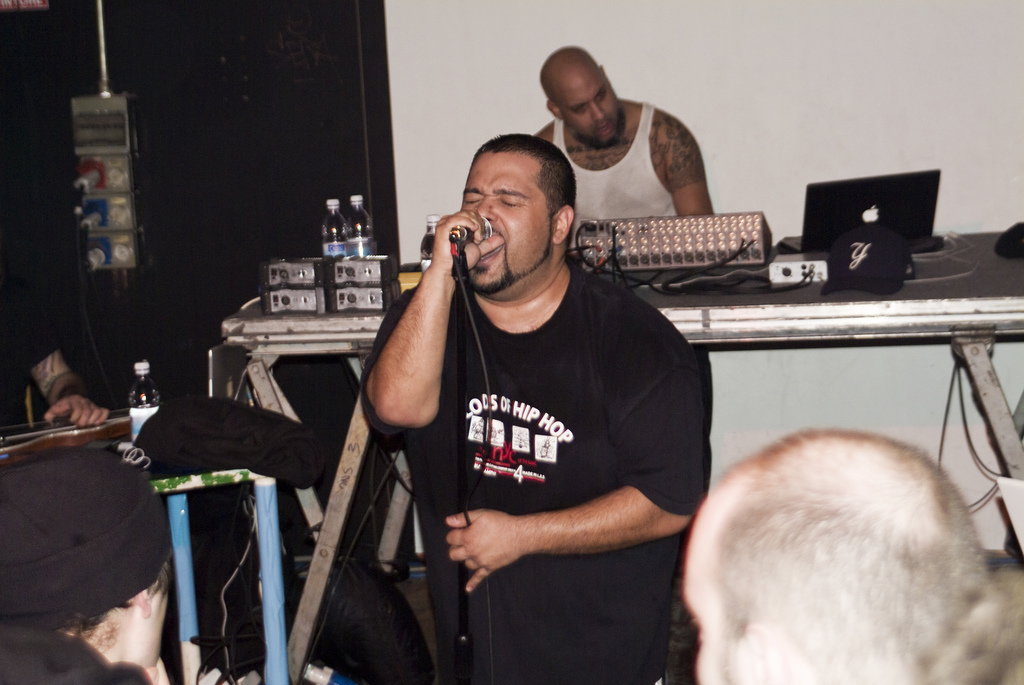 Dälek, at the cultural center Leoncavallo (Milan), in 2008. MC Dälek at the microphone, The Oktopus in the background.